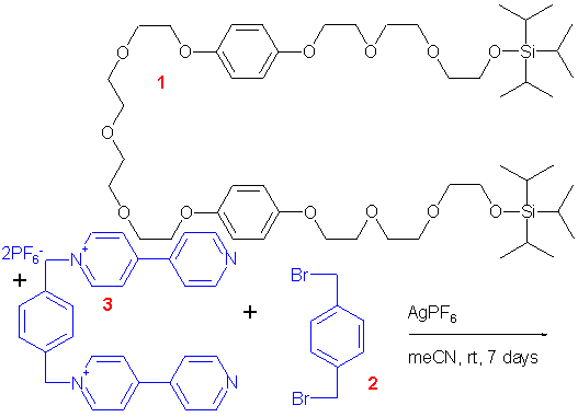 Molecular Shuttle Reaction